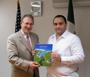 U.S. Ambassador Earl Anthony Wayne and Quintana Roo Governor Roberto Borge Angulo at the U.S. Consulate in Merida on Friday, February 10, 2012.